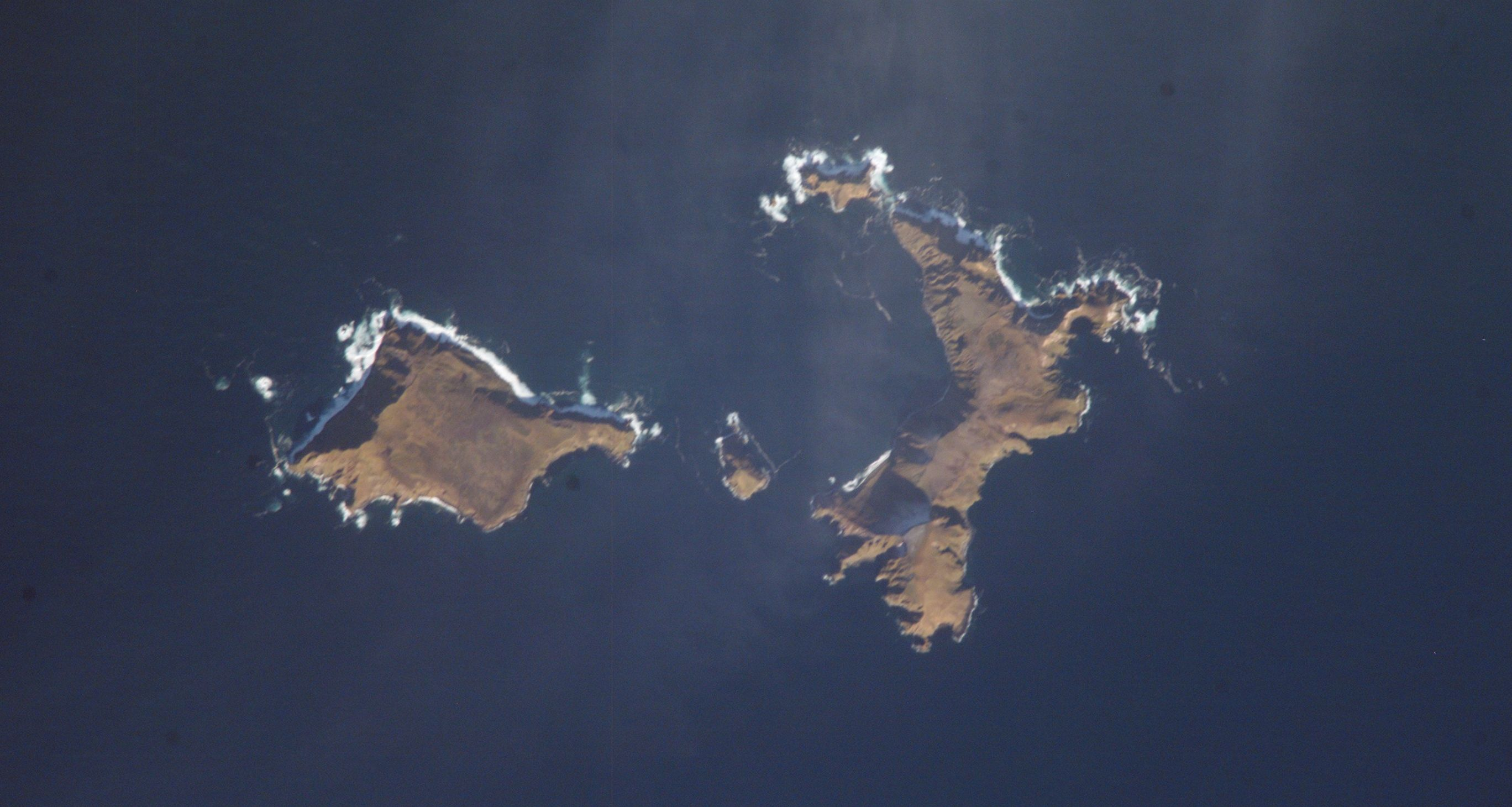 Davidof, Pyramid, Lopy and Khvostof Islands, Aleutian Islands